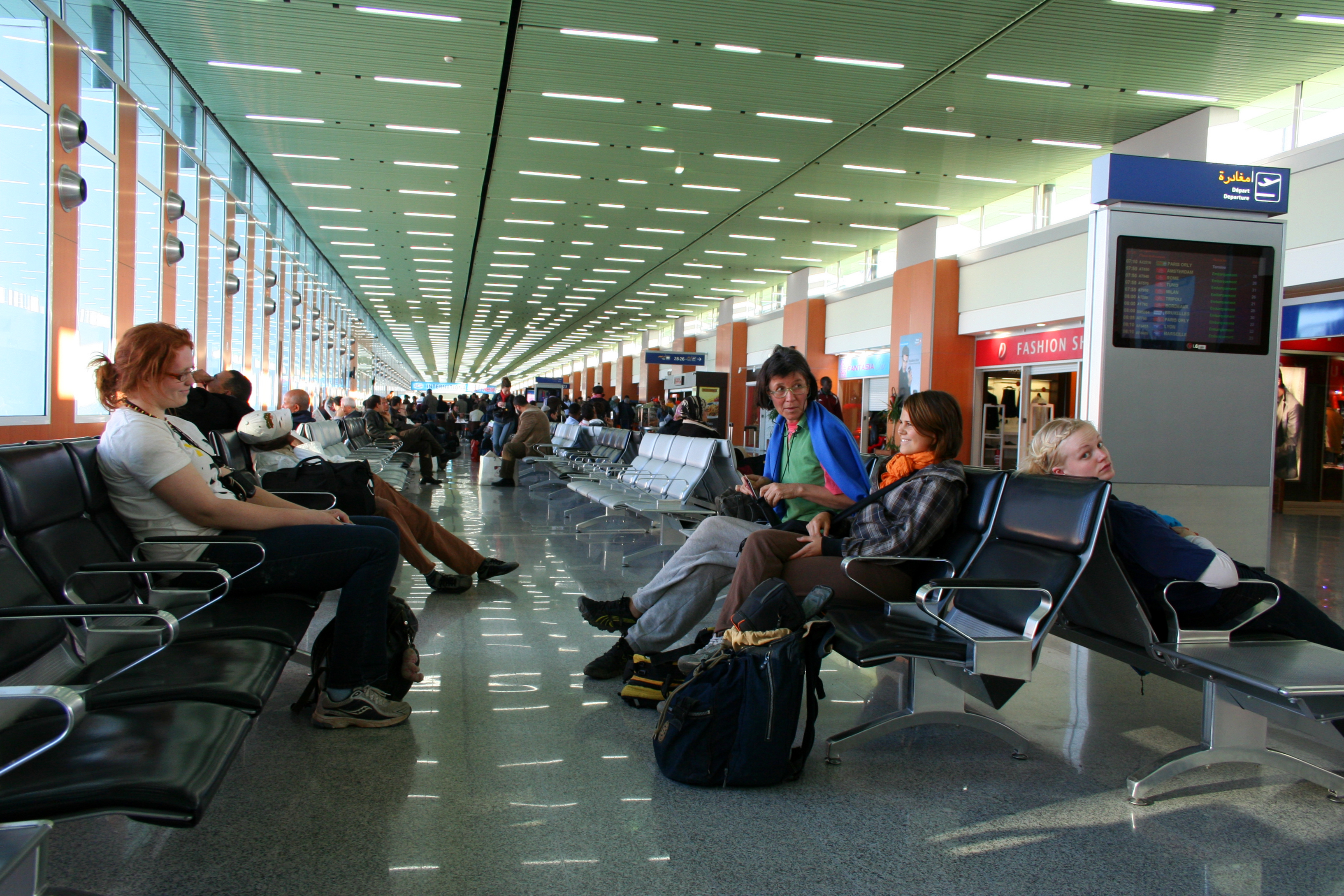 Casablanca Mohammed V Airport: The Casablanca airport already felt a lot like Europe.